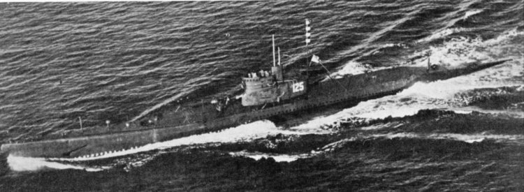 United States Navy submarine off New England.